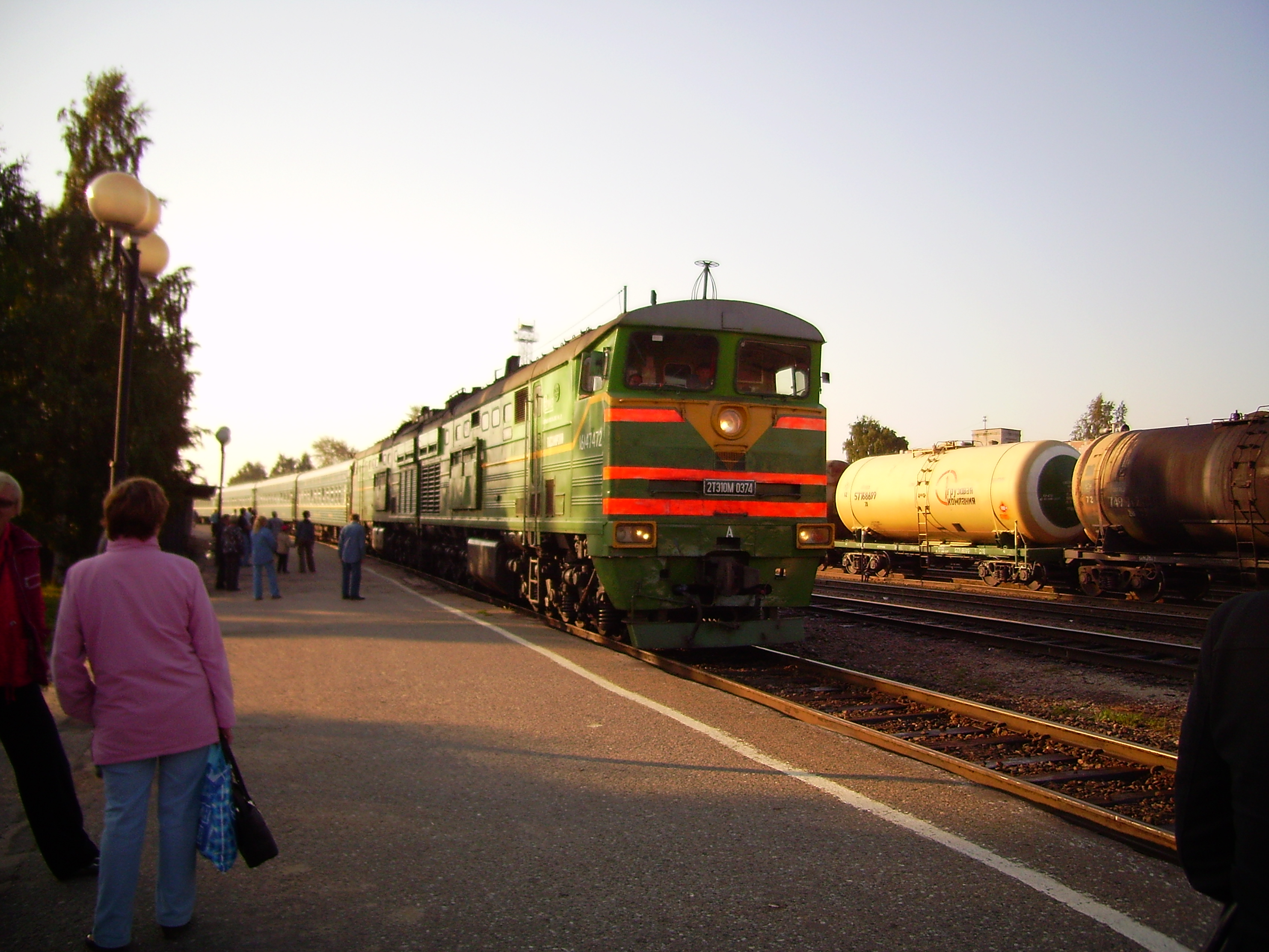 "Mary El's" firm train with diesel locomotive 2TE10M-0374 arrives on station Yoshkar Ola